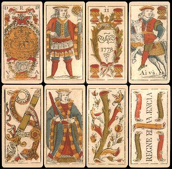 Replica of a Spanish deck printed in Valencia, in 1778, courtesy of the Fournier Museum in Alava-Gasteiz, Spain.